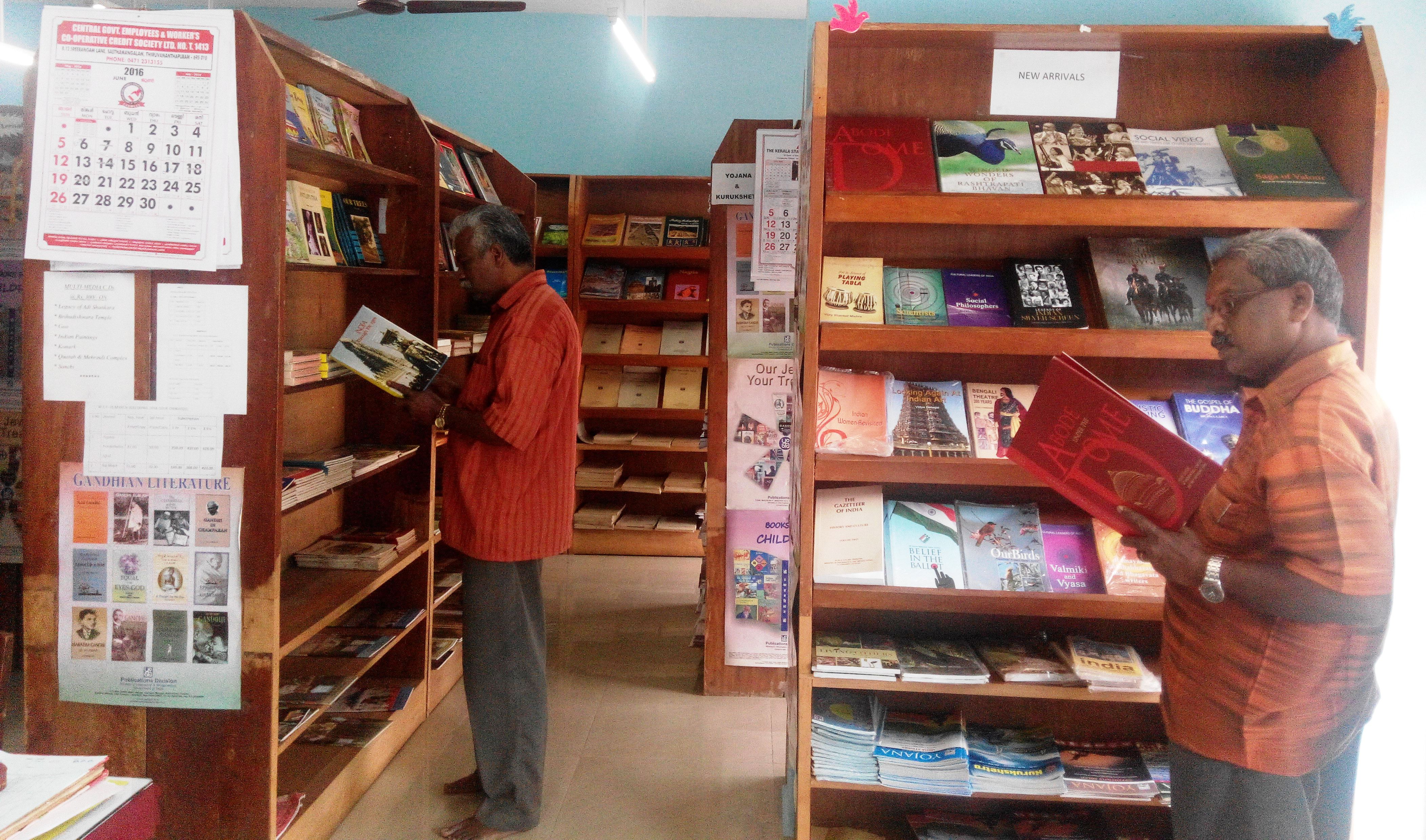 Publications Division's books outlet in Trivandrum City.Central Governments books & publications can be purchased from here.